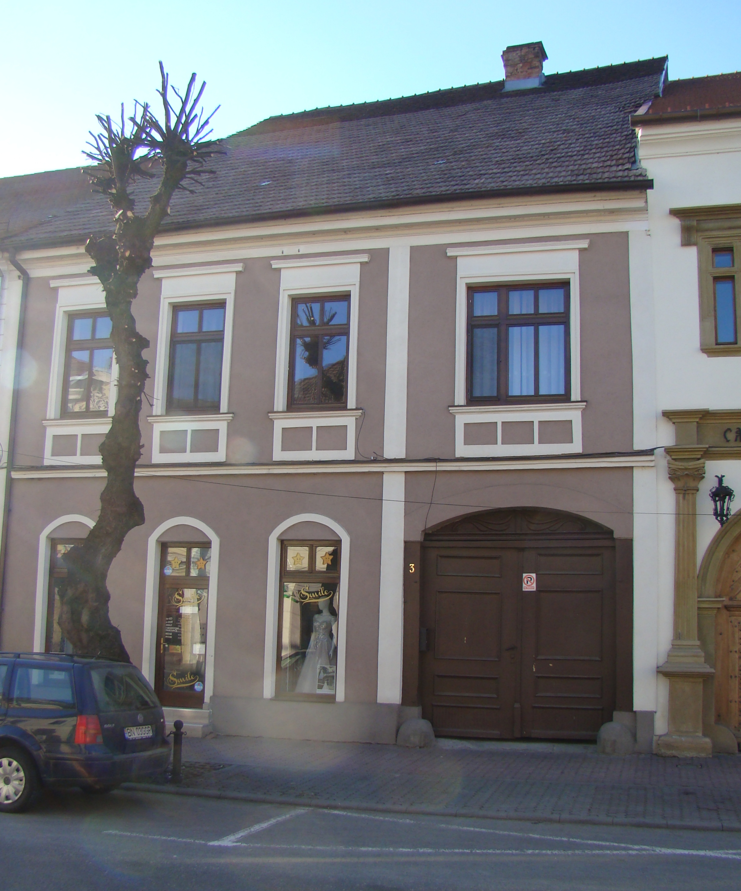 House, historic monument, in Bistriţa, Dornei street, number 3